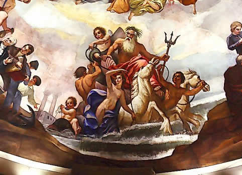 "Marine": Neptune, god of the sea, holding his trident and crowned with seaweed, rides in a shell chariot drawn by sea horses. Venus, goddess of love born from the sea, helps lay the transatlantic cable. In the background is a form of iron-clad ship with smokestacks.